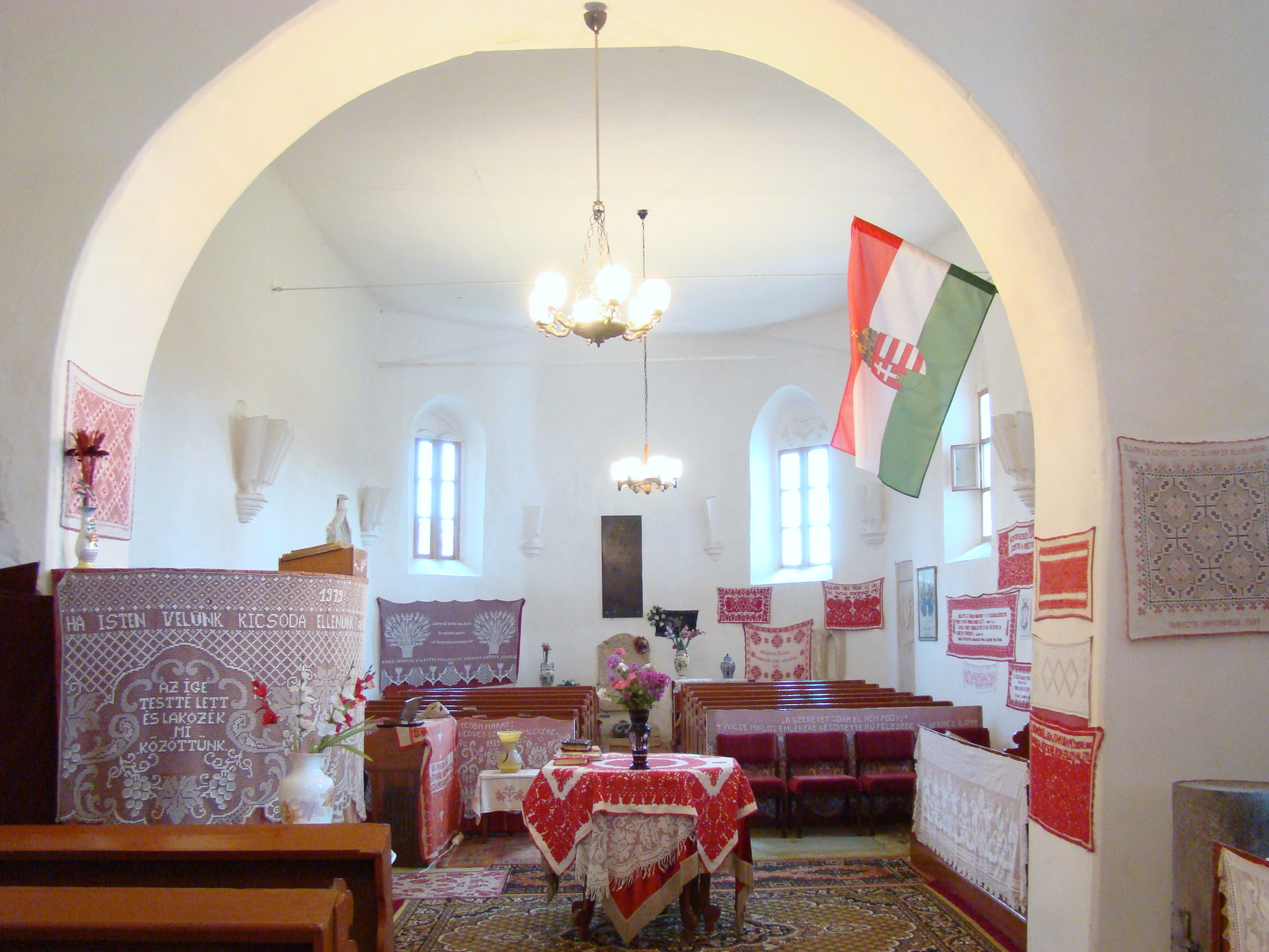 Reformed church in Aghireșu, Cluj county, Romania